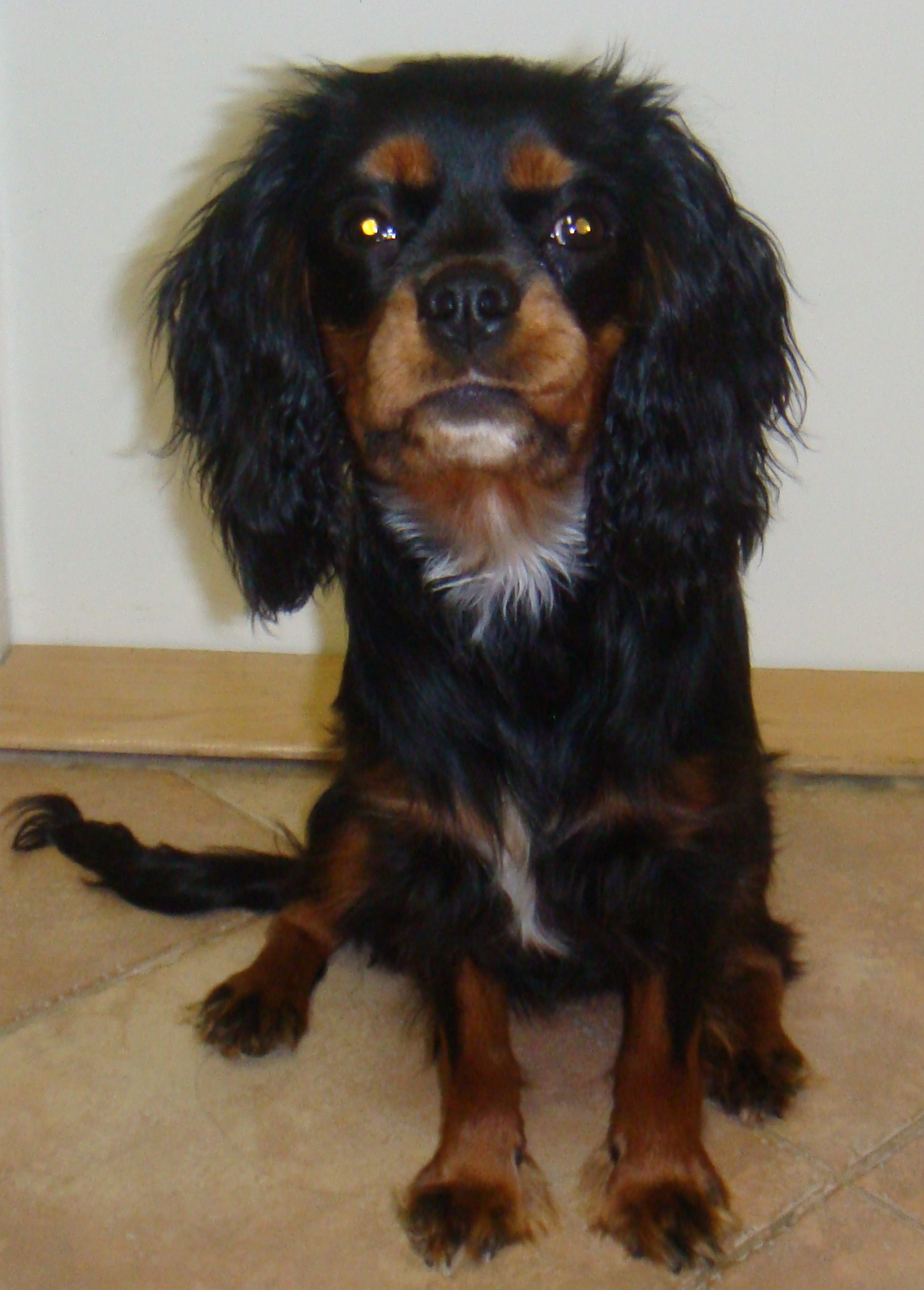 Cavalier who doesnt suit the conditions of the exhibition